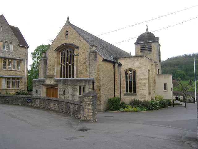 Monkton Combe (Somerset) School Chapel